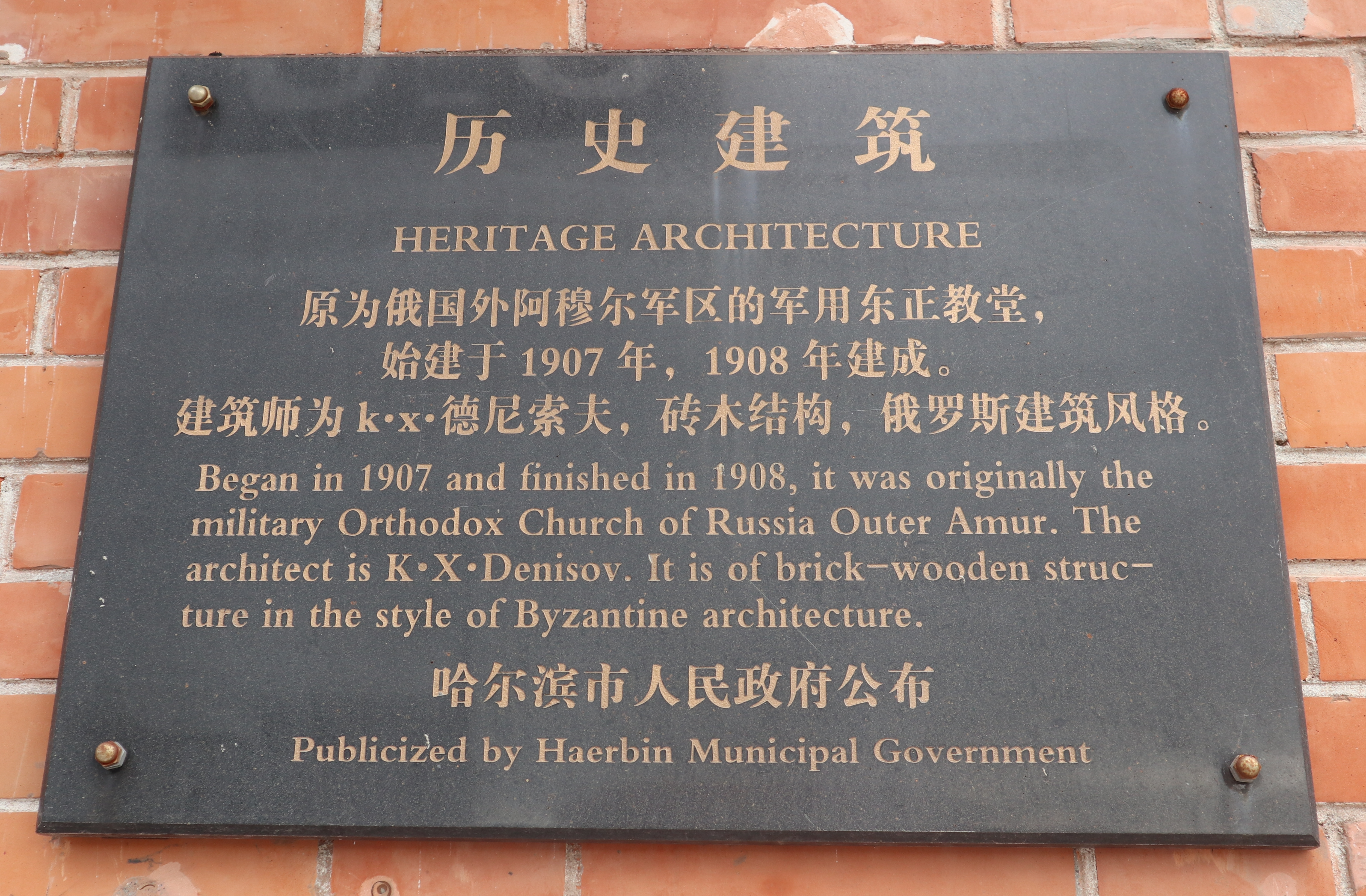 Board on Church of the Theotokos of Iveron in Harbin.